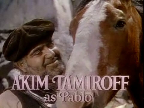 Actor Akim Tamiroff in For Whom the Bell Tolls - trailer (screenshot)